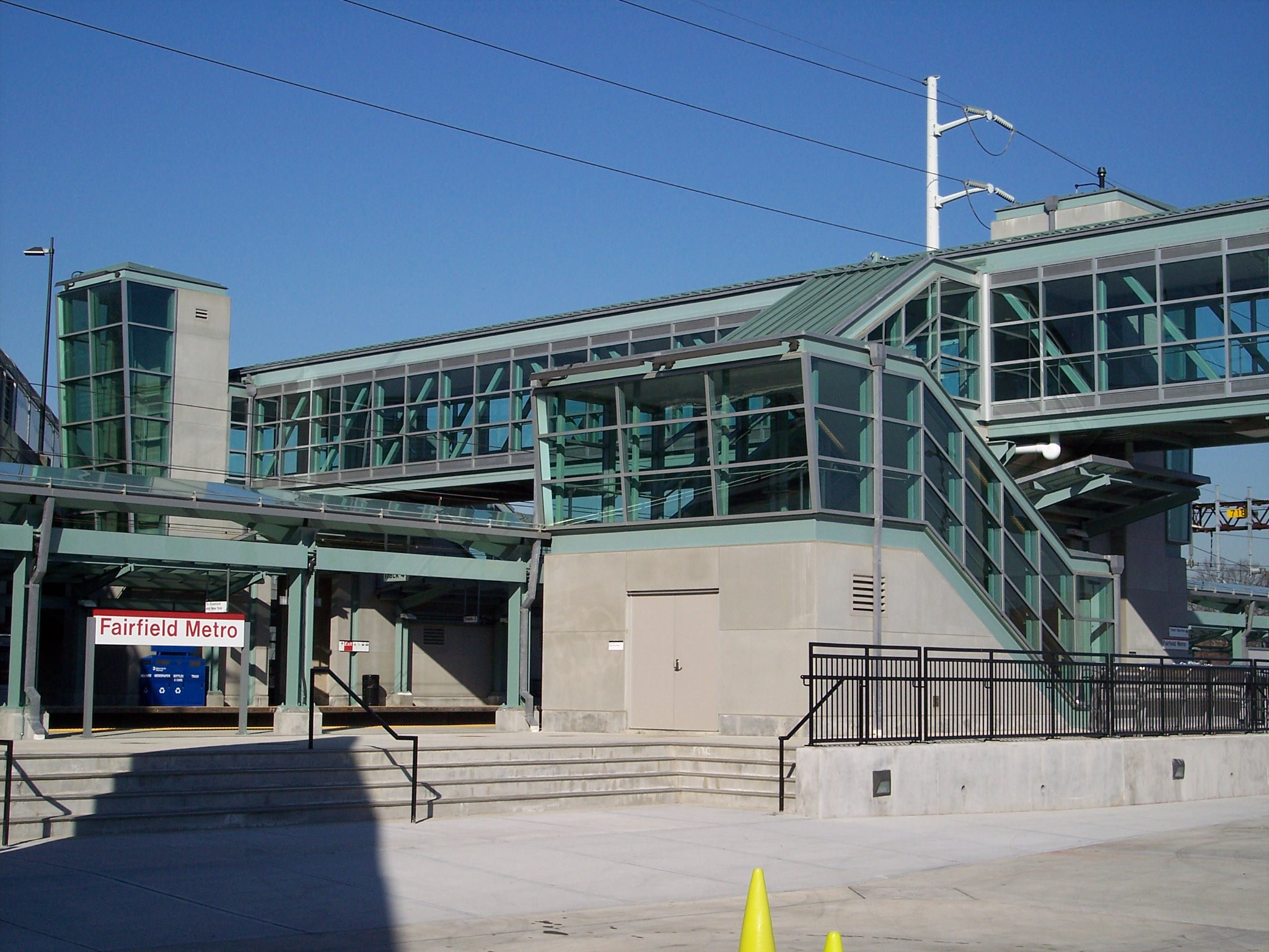 The overpass at the Fairfield Metro station in Fairfield CT